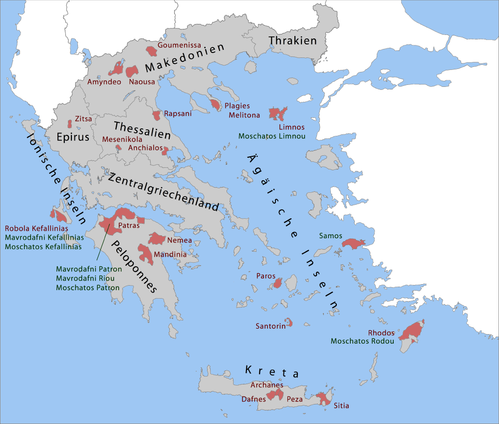 Greek wine regions with OPE (Green) and OPAP Appellations (red)